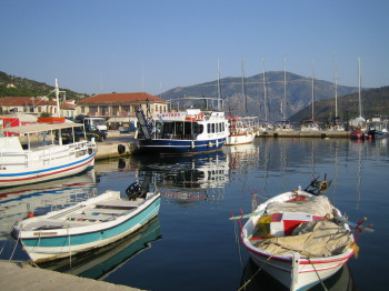 This photograph was taken by me in July 2005. i do not mind releasing the picture to be used in any circumstances but a link back to wikipedia would be nice.